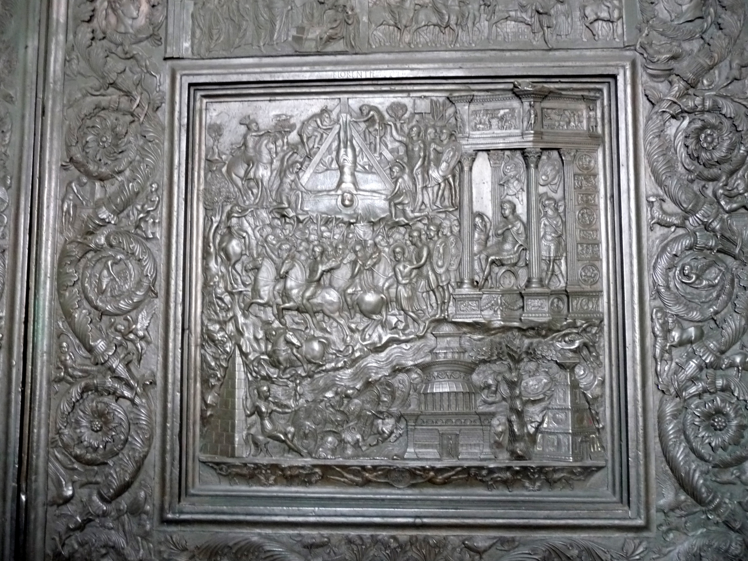 Portale del Filareto, San Pietro, Rome, detail